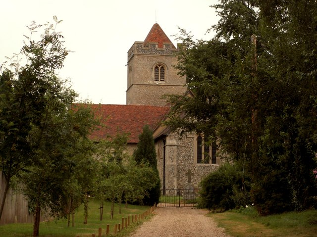 St. Nicholas' church, Berden, Essex. This church has a Norman nave with 13th century transepts and a 15th century tower. The picture shows the approach from the east.